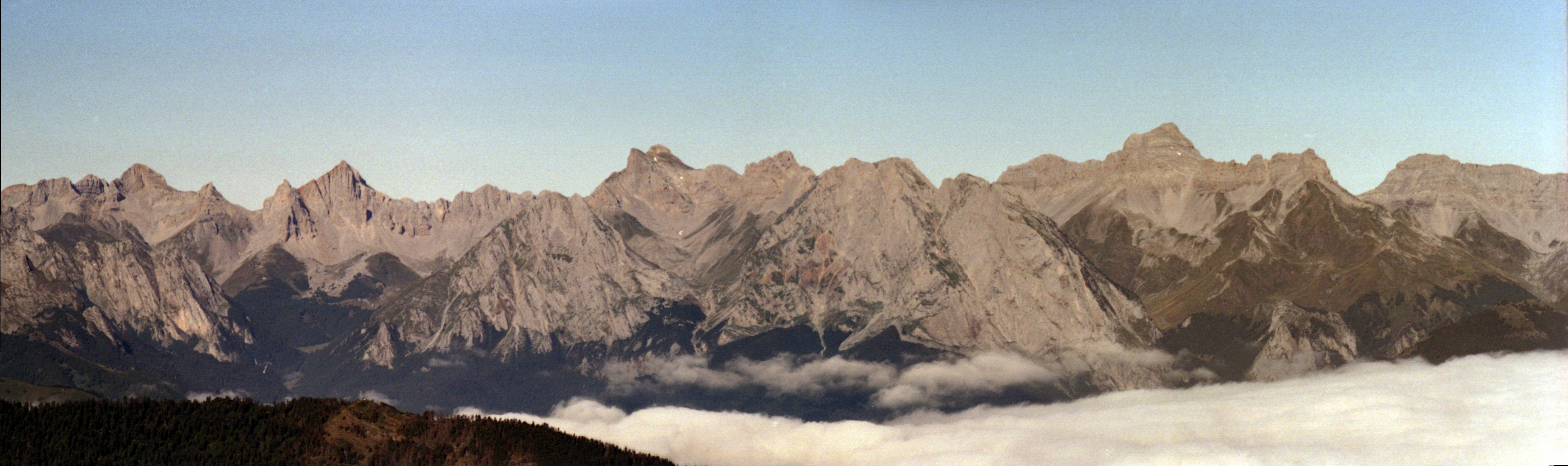 Cirque de Lescun viewed from Massiv de Sesques in Summer 2004 in the morning